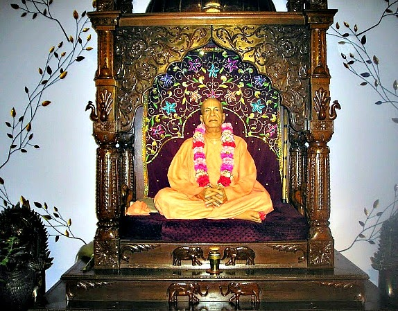 AC Bhakti vedanta shrila prabhupada swamiji